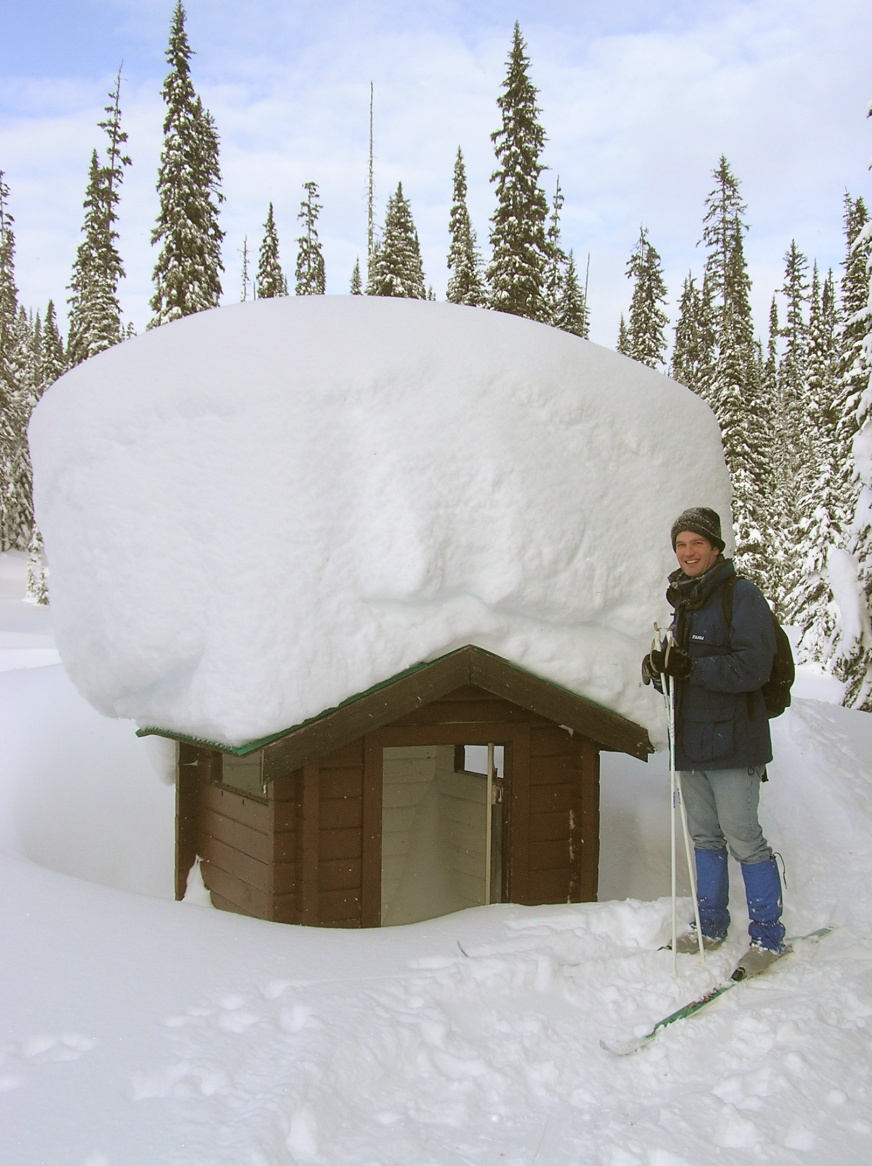 Manning Park thoughtfully provides an outhouse at Poland Lake. The problem is using it.